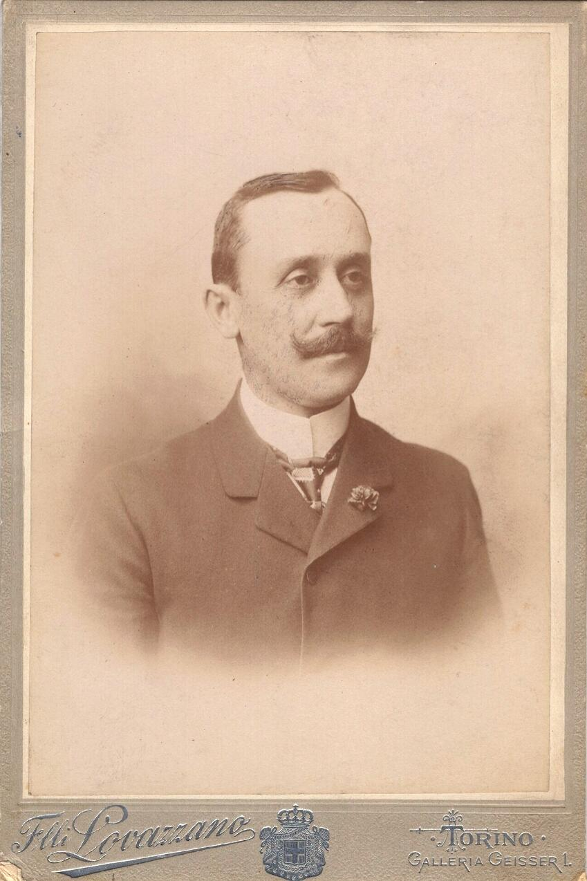 Eftim Kitanchev